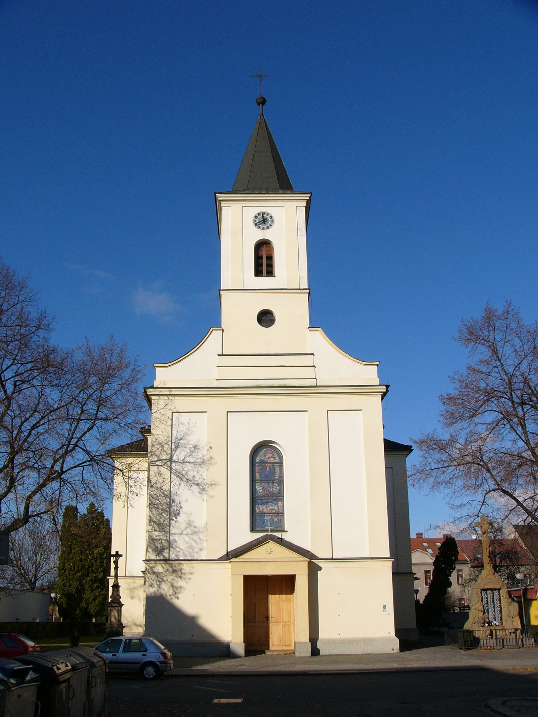 Church in Jiraskova street in Olomouc-Hodolany (Czech Republic).